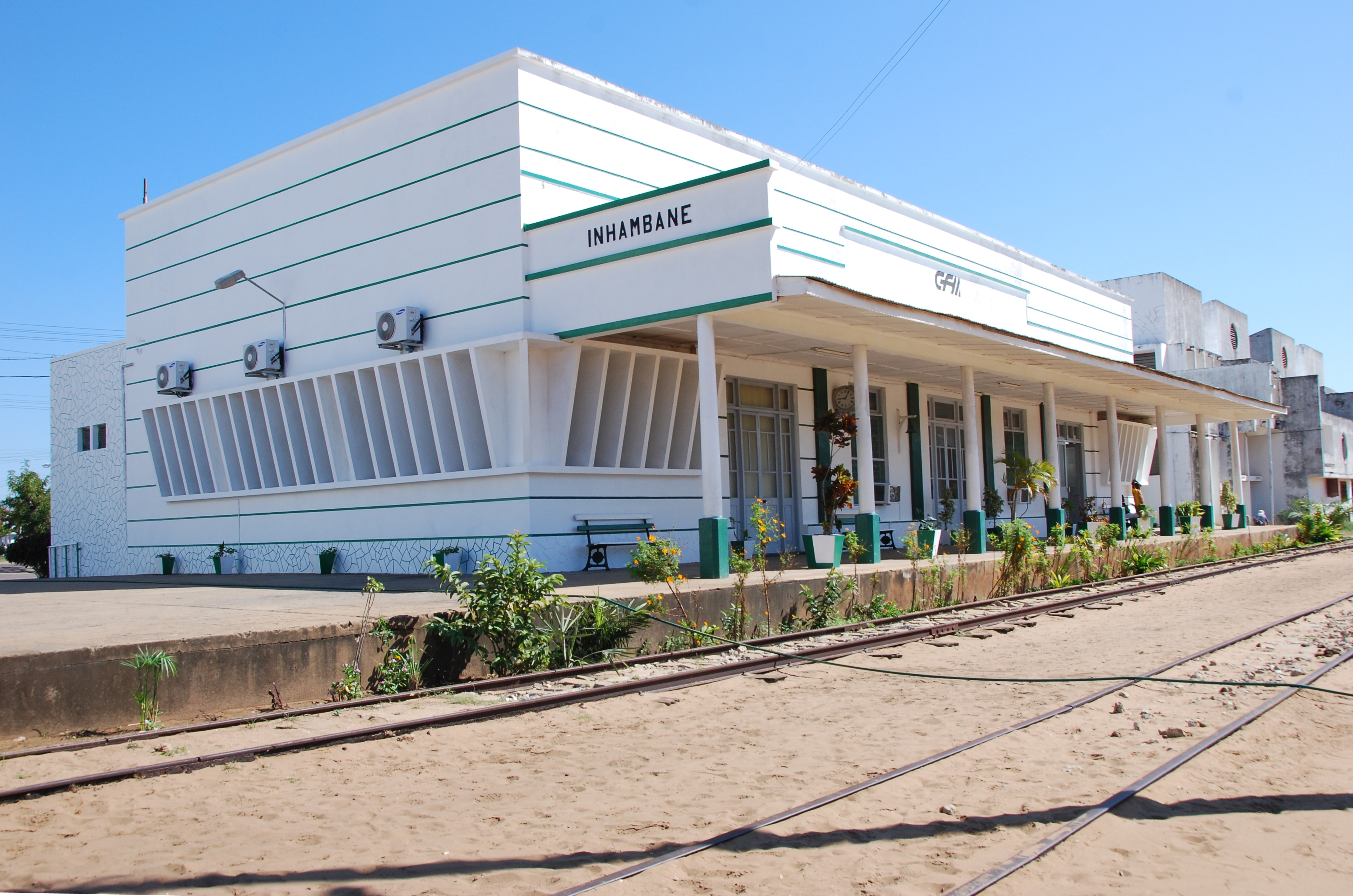 Estação do Caminho de Ferro Inhambane back side